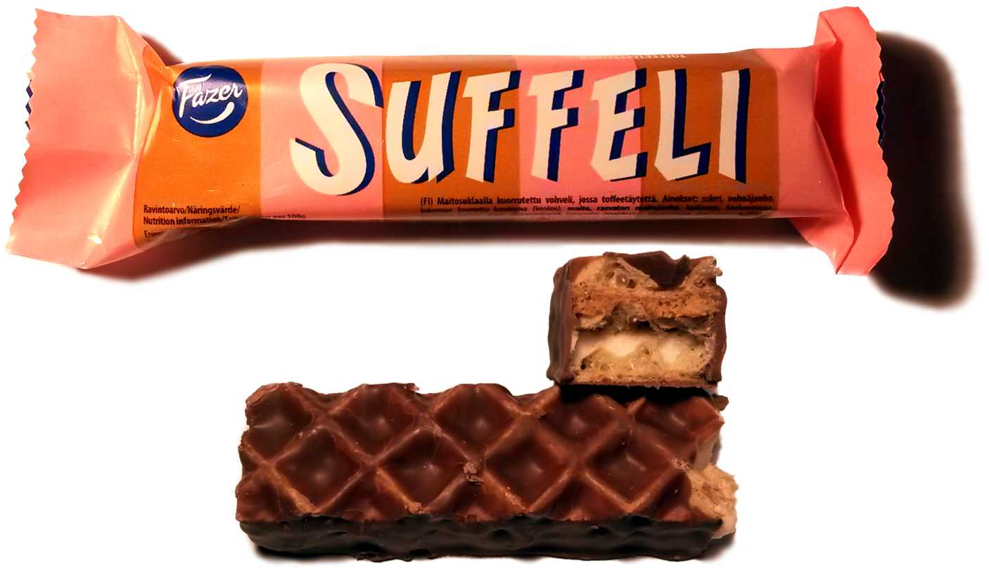 Suffeli chocolate bar. The bar weights 21 g, is coated with milk chocolate and has a wafer with toffee filling. Manufactured by finnish food company Fazer Makeiset Oy.